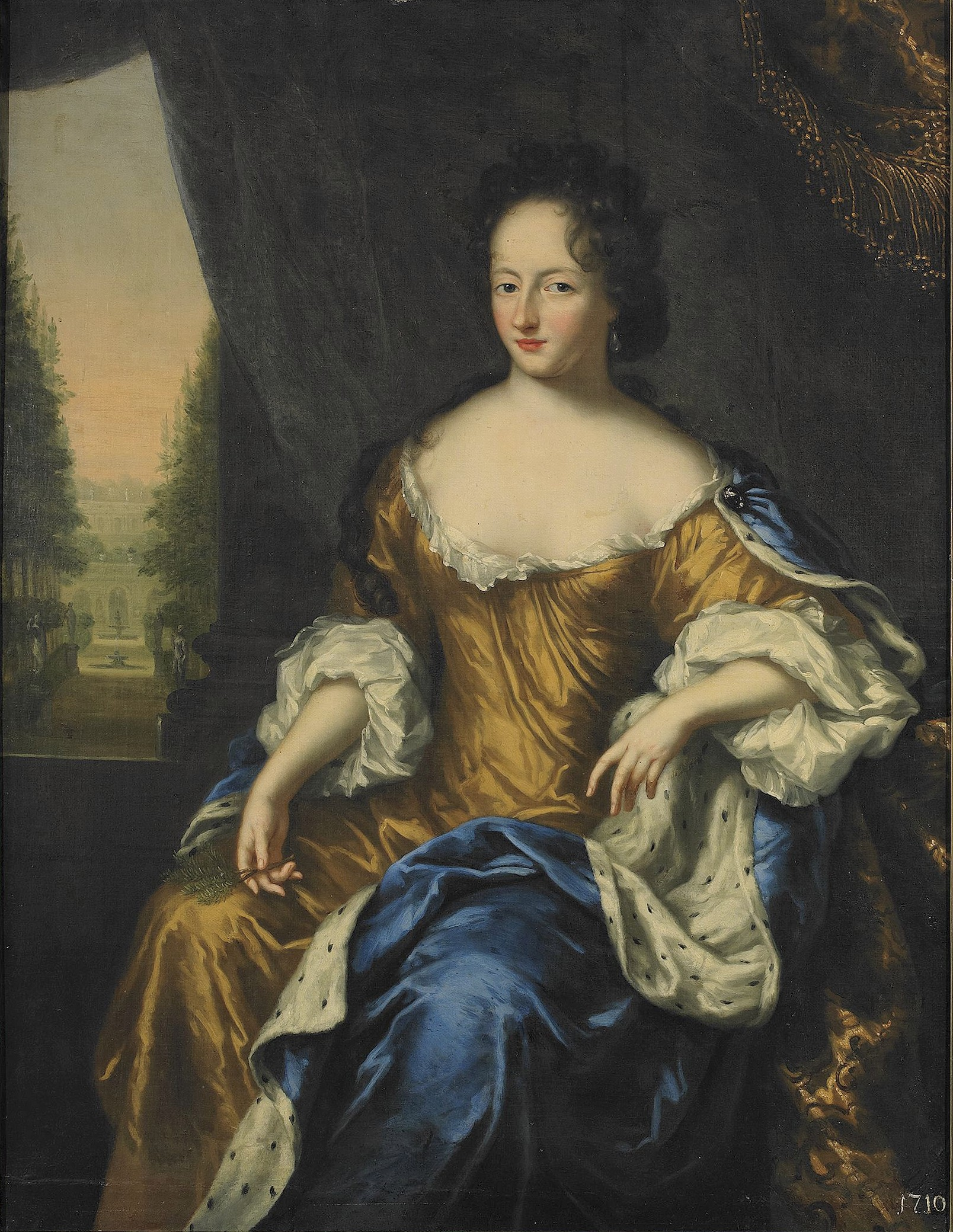 Ulrika Eleonora (1656-1693). In her hand she is holding a spruce shoot, an allegory for growth; at the time she was pregnant with her first child Karl Gustaf.